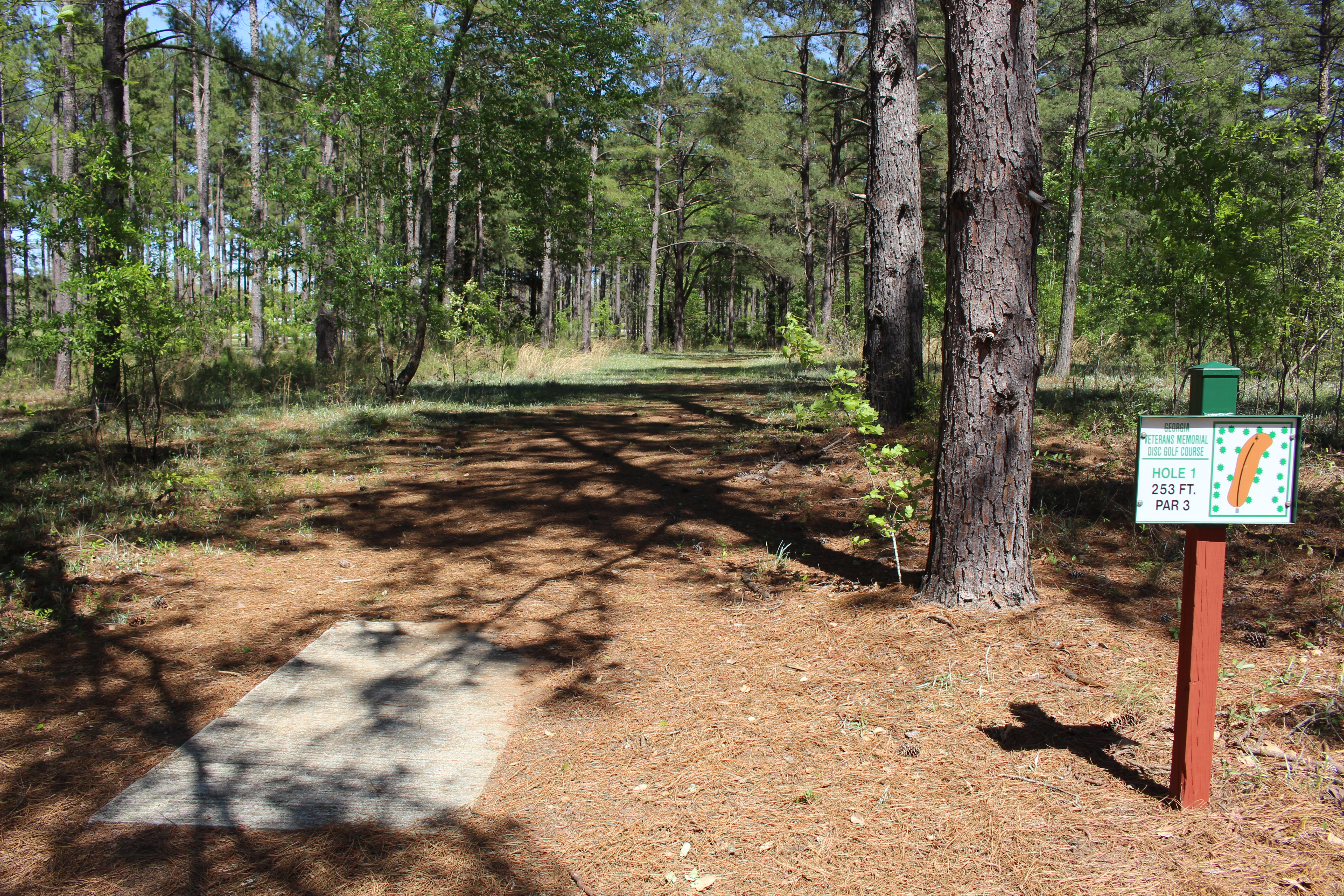 Georgia Veterans State Park, Crisp County, Georgia